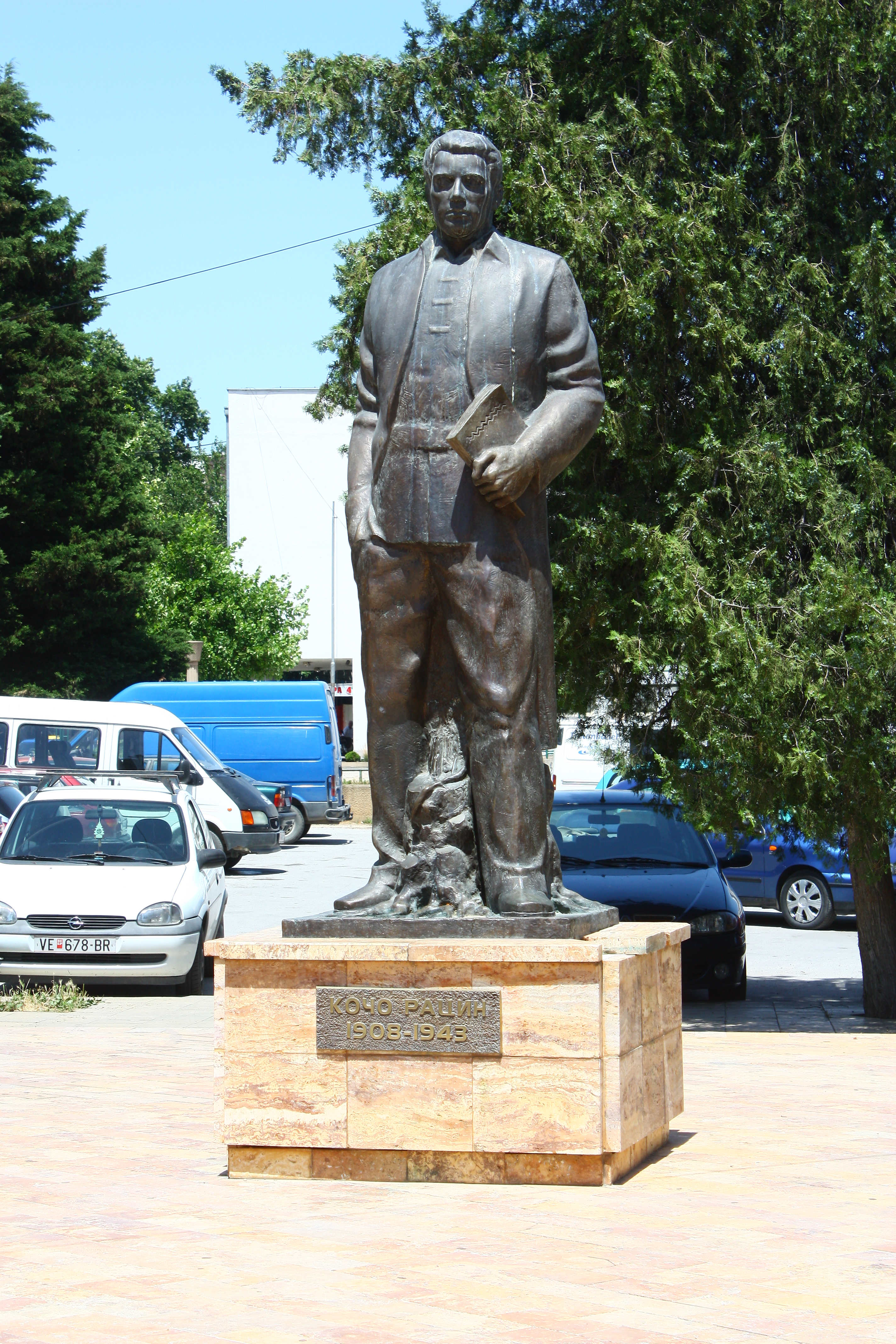 This image is uploaded as part of the picture contest Wiki Loves Cultural Heritage in Macedonia 2013. English | македонски | +/− Споменик на Кочо Рацин во Велес